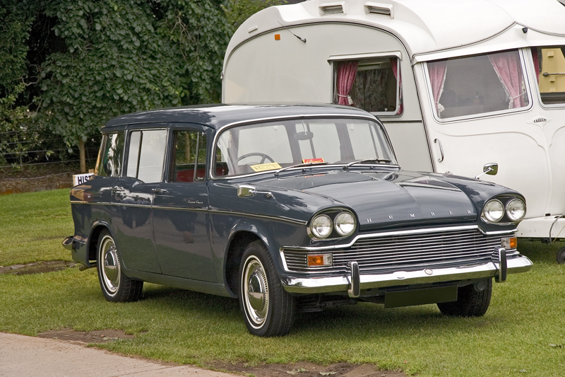 Humber Super Snipe Series V Estate. The Estate models did not get the near windscreen and windows of the saloons